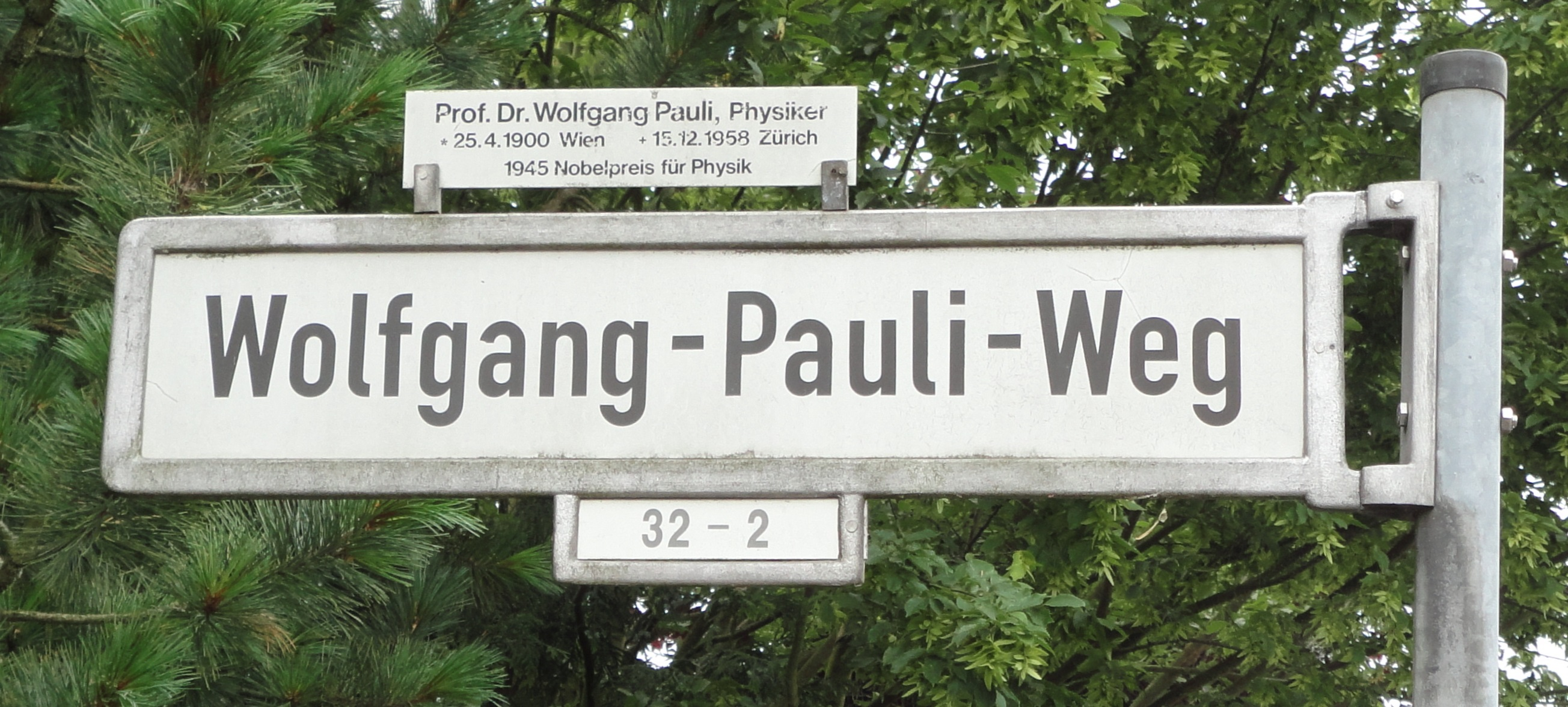 Göttingen-Weende, road sign Wolfgang-Pauli-Weg